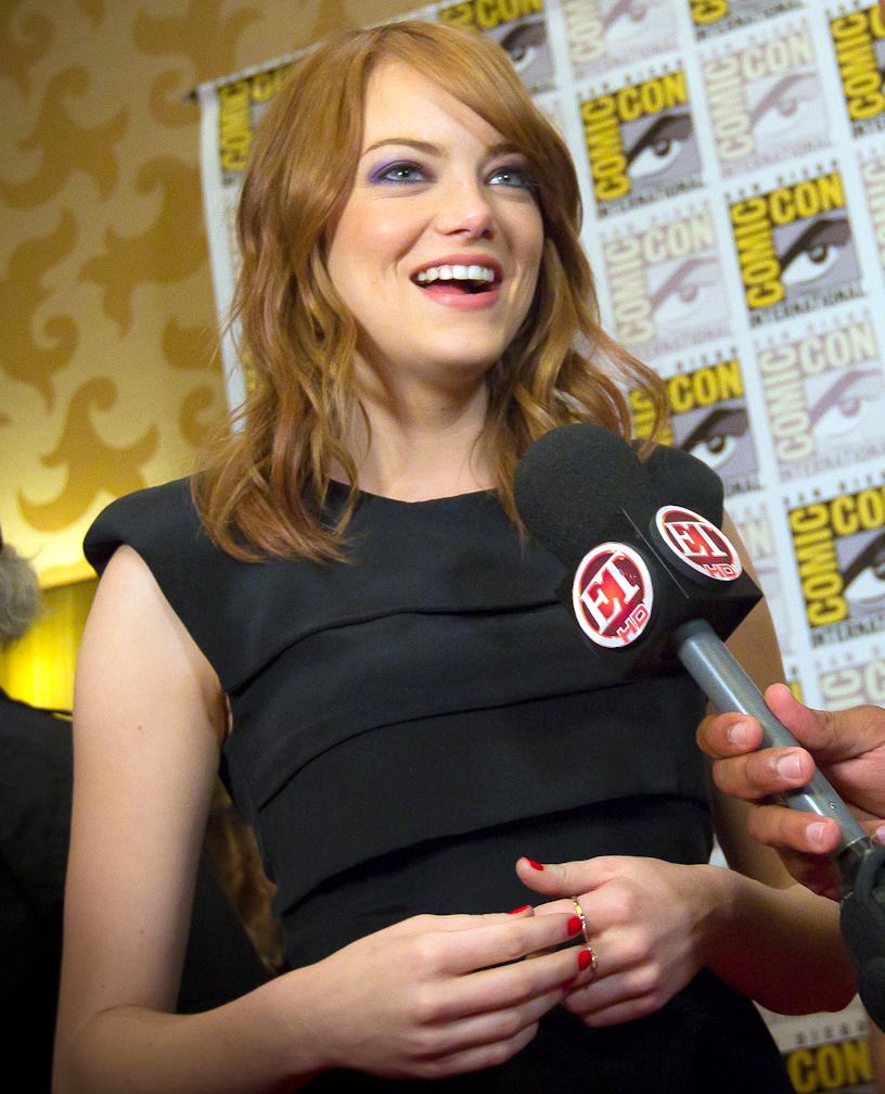 Emma Stone at the 2011 San Diego Comic-Con International